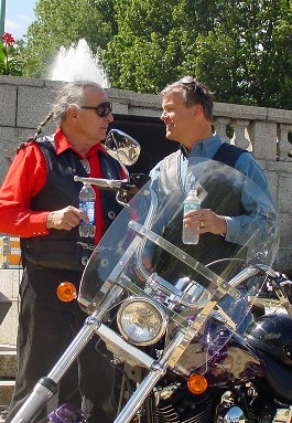 Rep. Christopher Cox and Sen. Ben Nighthorse Campbell - Motorcycle enthusiasts Rep. Cox and Sen. Ben Nighthorse Campbell pause for rest following the arrival into Washington, DC of "America's Ride 2002," a charity cross-country motorcycle ride to raise money for the victims of the 9/11 attacks.